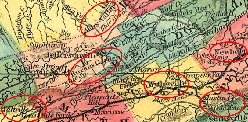 Map shows the region around Wytheville, Virginia, in 1861 -- close to the time of the Wytheville Raid in 1863. Wytheville, the Austin lead mines, Saltville, and the New Bern/Dublin railroad depot were all key points of interest to the Union Army. Skirmishes occurred in Abb's Valley and Burkes Garden while the Union Brigade was moving toward Wytheville.